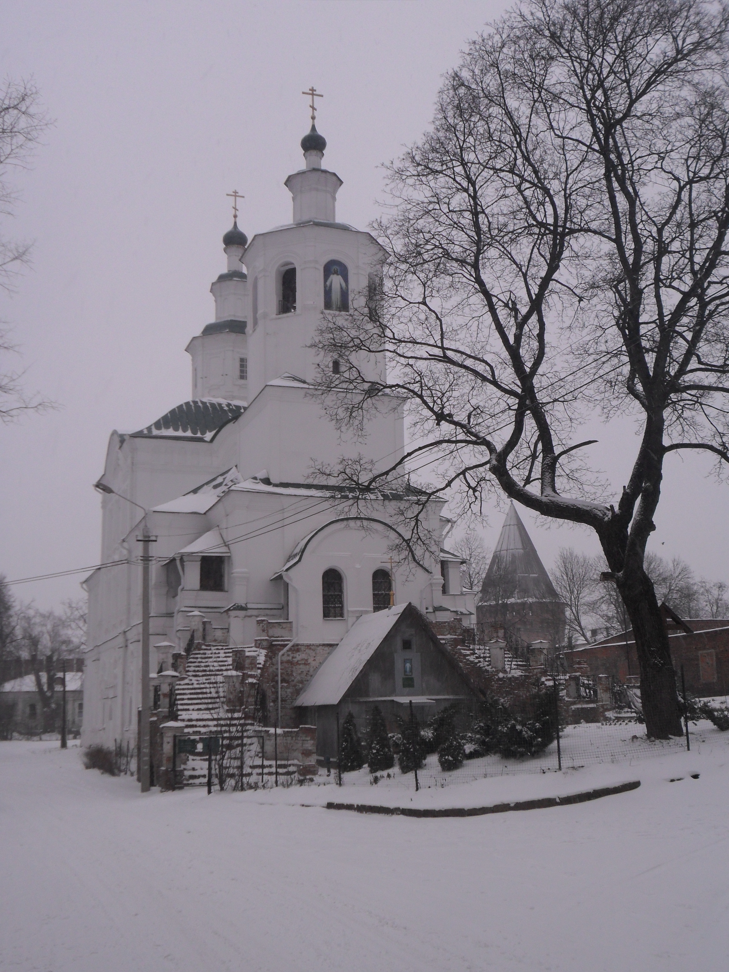 Avraamiev monastery in Smolensk - winter view of the facade side.